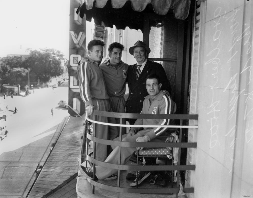 French rugby league players in Brisbane, 1951. French rugby league players relaxing on a balcony at the Albert Hotel. Three of the men wear tracksuits and the fourth man wears a hat, suit and tie. The photograph bears some signatures on the right.